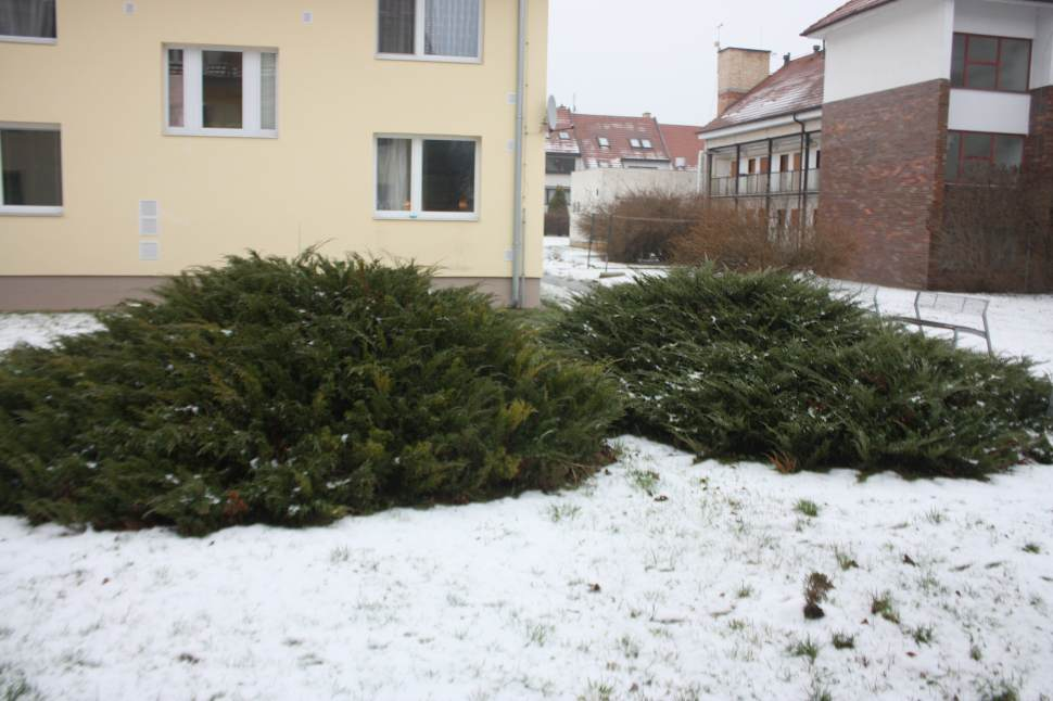 Juniperus sabina Česky: Juniperus sabina